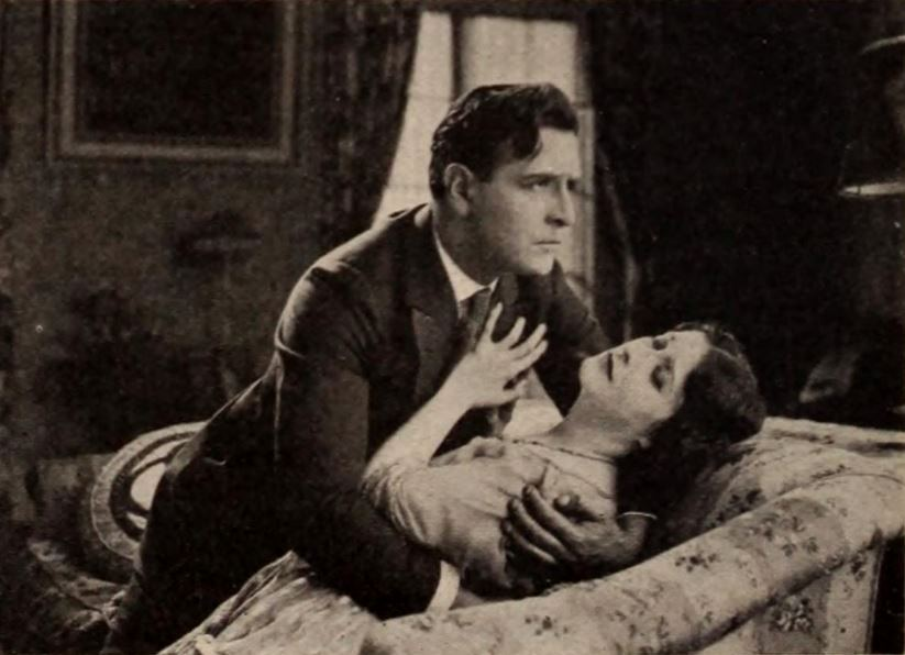 Still from the American drama film The Forbidden Woman (1920) with Conway Tearle and Clara Kimball Young, on page 34 of the March 13, 1920 Exhibitors Herald.